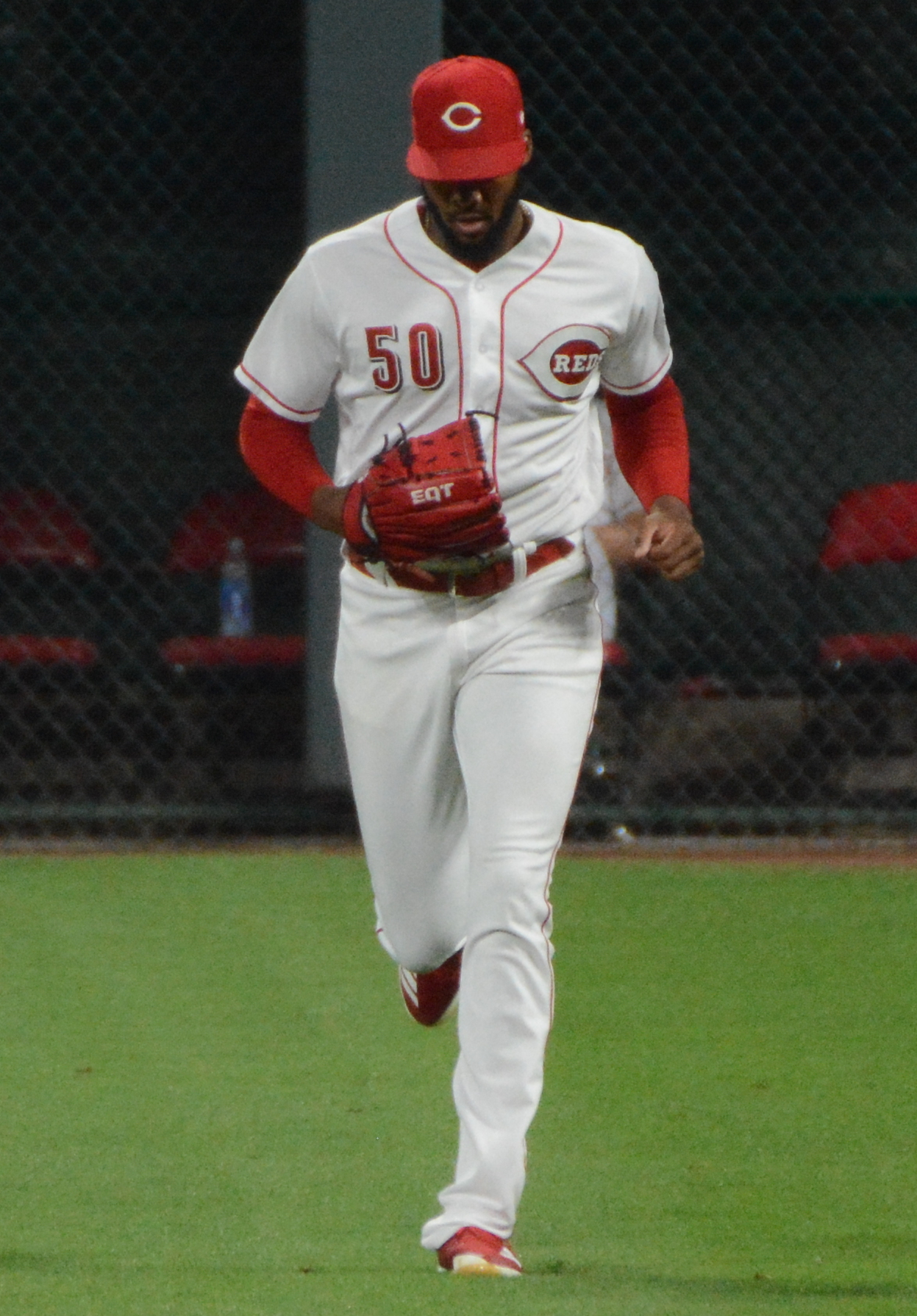 Taken at a baseball game between the Cincinnati Reds and the Arizona Diamondbacks on August 11, 2018 at Great American Ball Park in Cincinnati, Ohio.